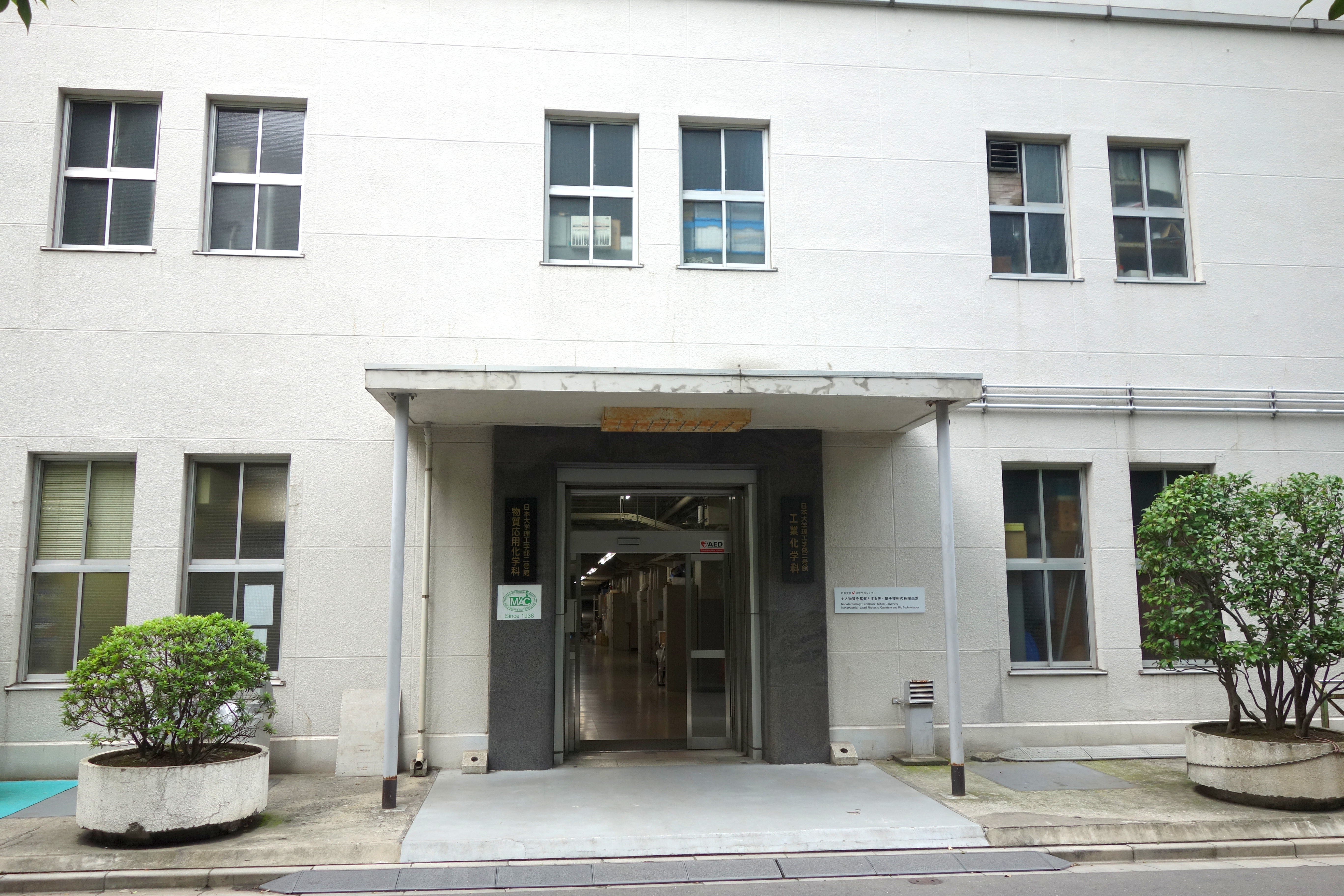 Nanotechnology Excellence building - Nihon University - Tokyo, Japan.